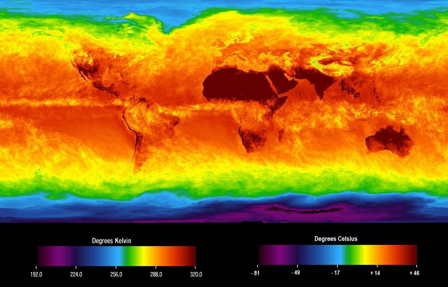 Global average brightness temperature from satellite observations. April 2013